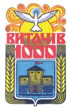 Coat of arms of Vytachiv, Kyiv Oblast